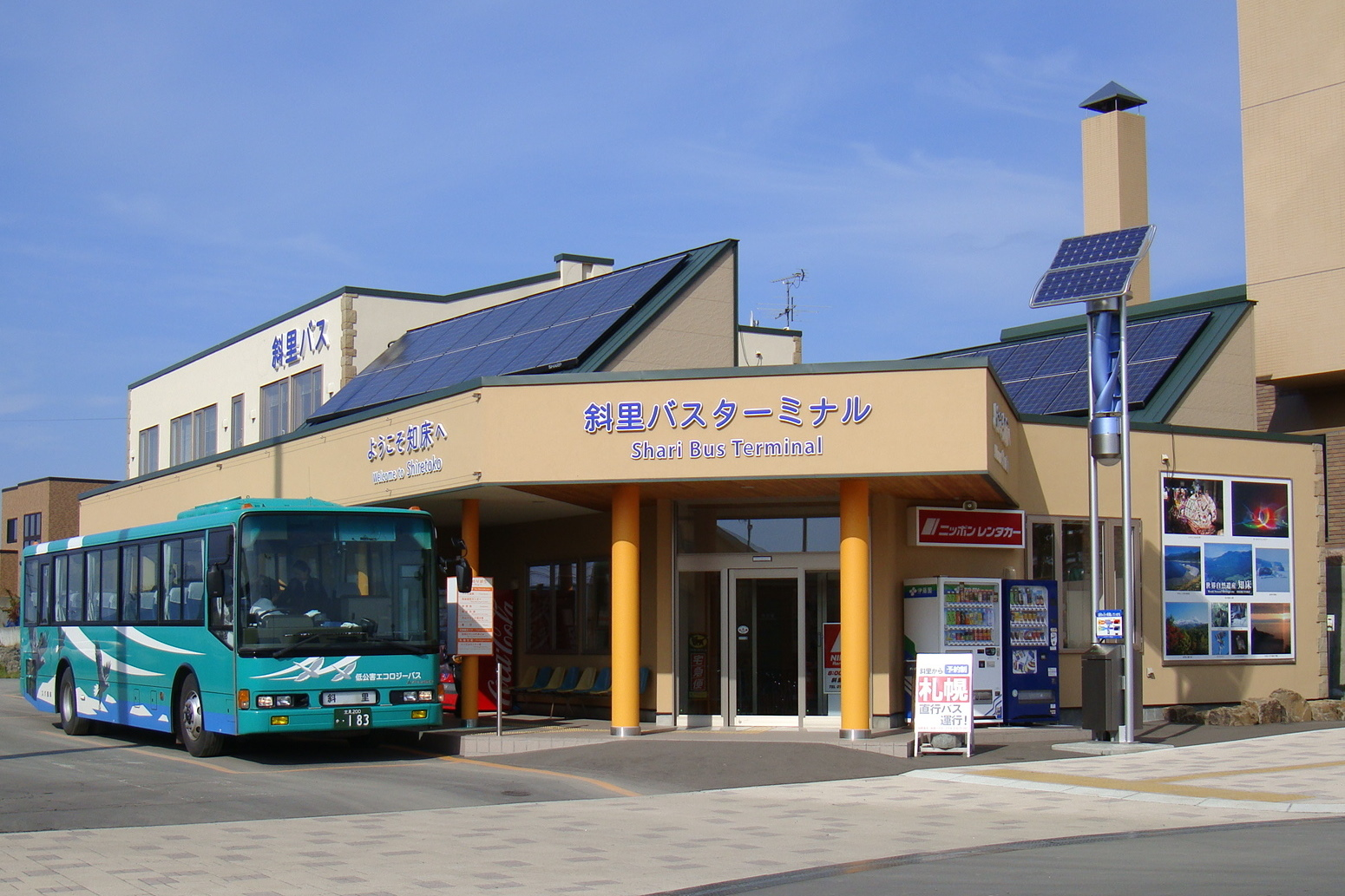 Main depot, Shari bus terminal, Shiretoko-Shari Station